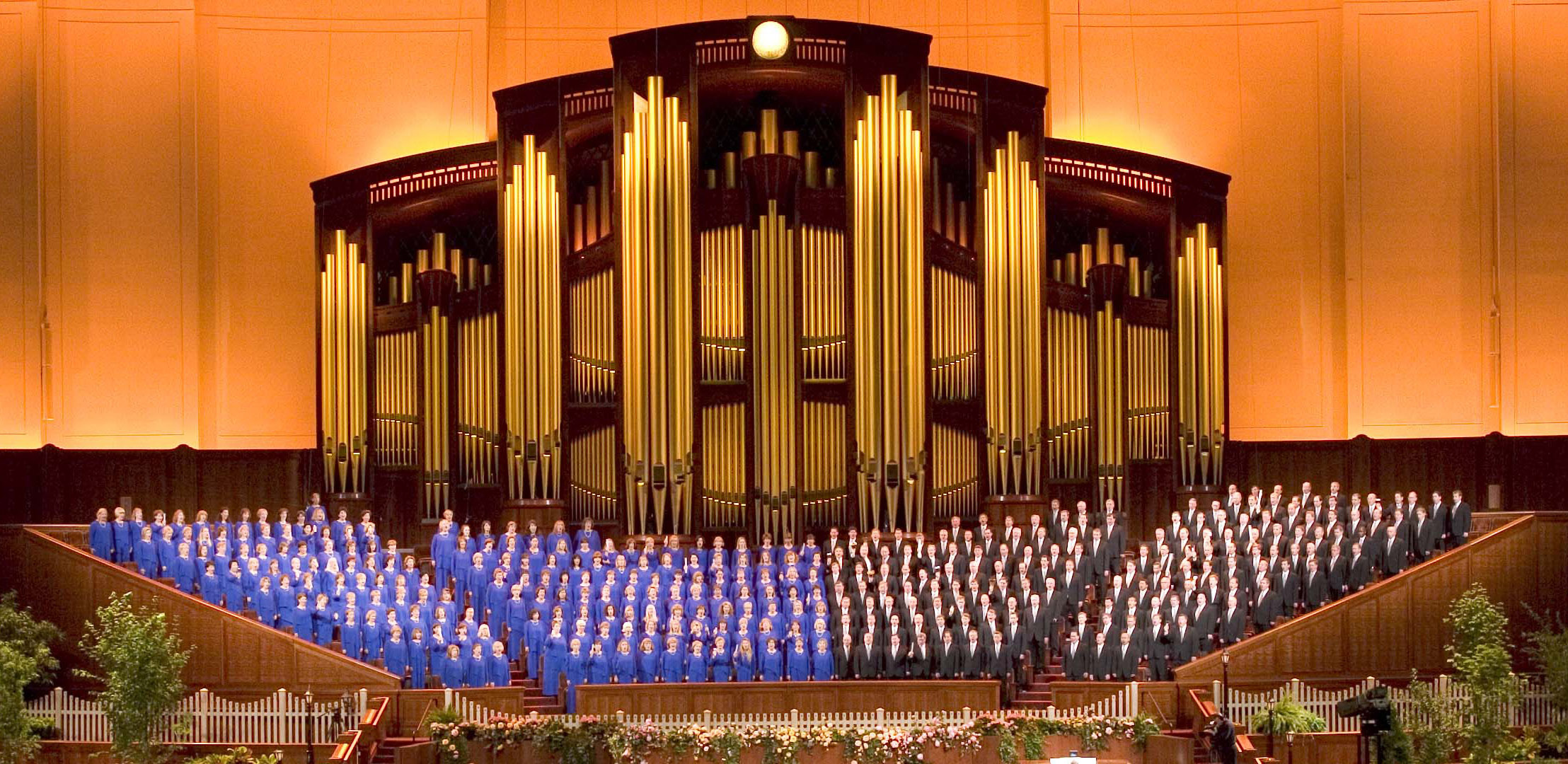 The Mormon Tabernacle Choir and Orchestra at Temple Square perform on 75th anniversary of Music and the Spoken Word, a weekly 30-minute radio and television program sponsored by The Church of Jesus Christ of Latter-day Saints.